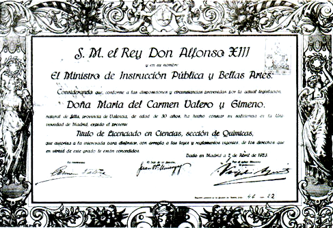 Titulacion de ciencias Quimicas de Carmen Valero